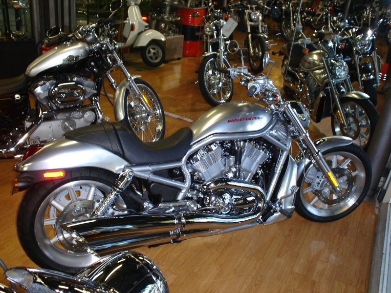 This is a Harley Davidson V-Rod. I took myself the photo, at the Harley dealer of Buenos Aires, Argentina.